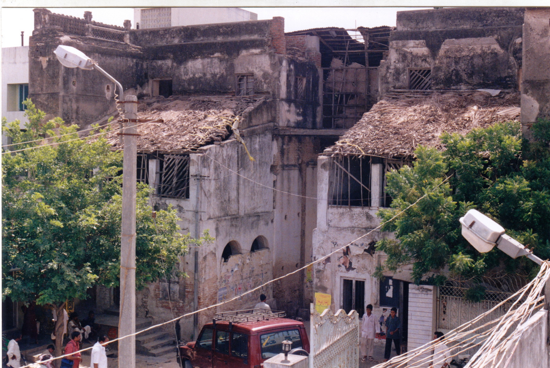 Narasaraopeta Rajagarikota front part (Not currently built)